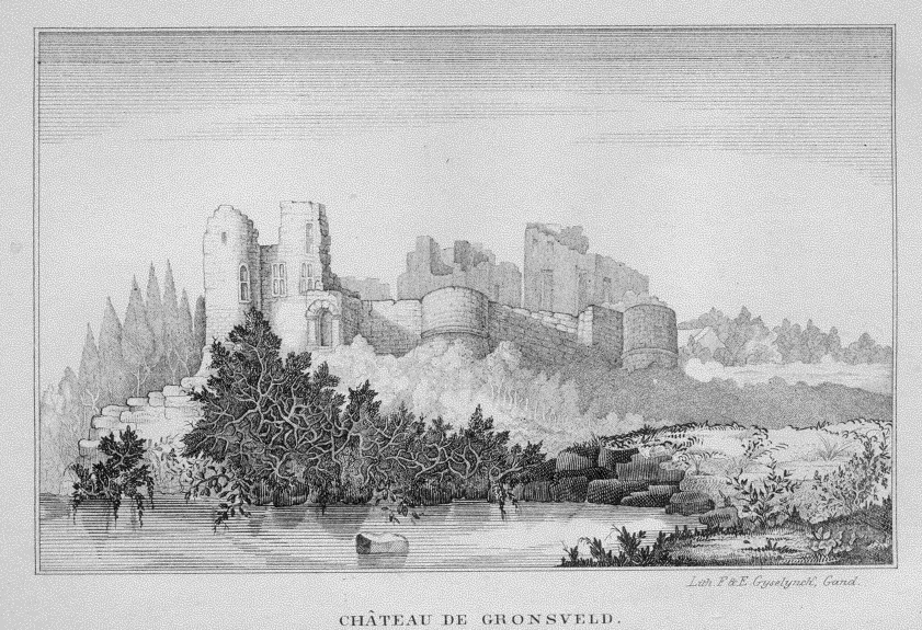 Ruins of Gronsveld Castle around 1827(?). Lithograph printed in 1854 by F. & E. Gyselynck in Gent, Belgium. A similar lithograph by Alexander Schaepkens was produced around 1840, probably for Vues dans le Limbourg aux bords de la Meuse (1840).